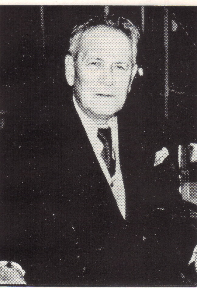 Romanian physicist Ștefan Procopiu